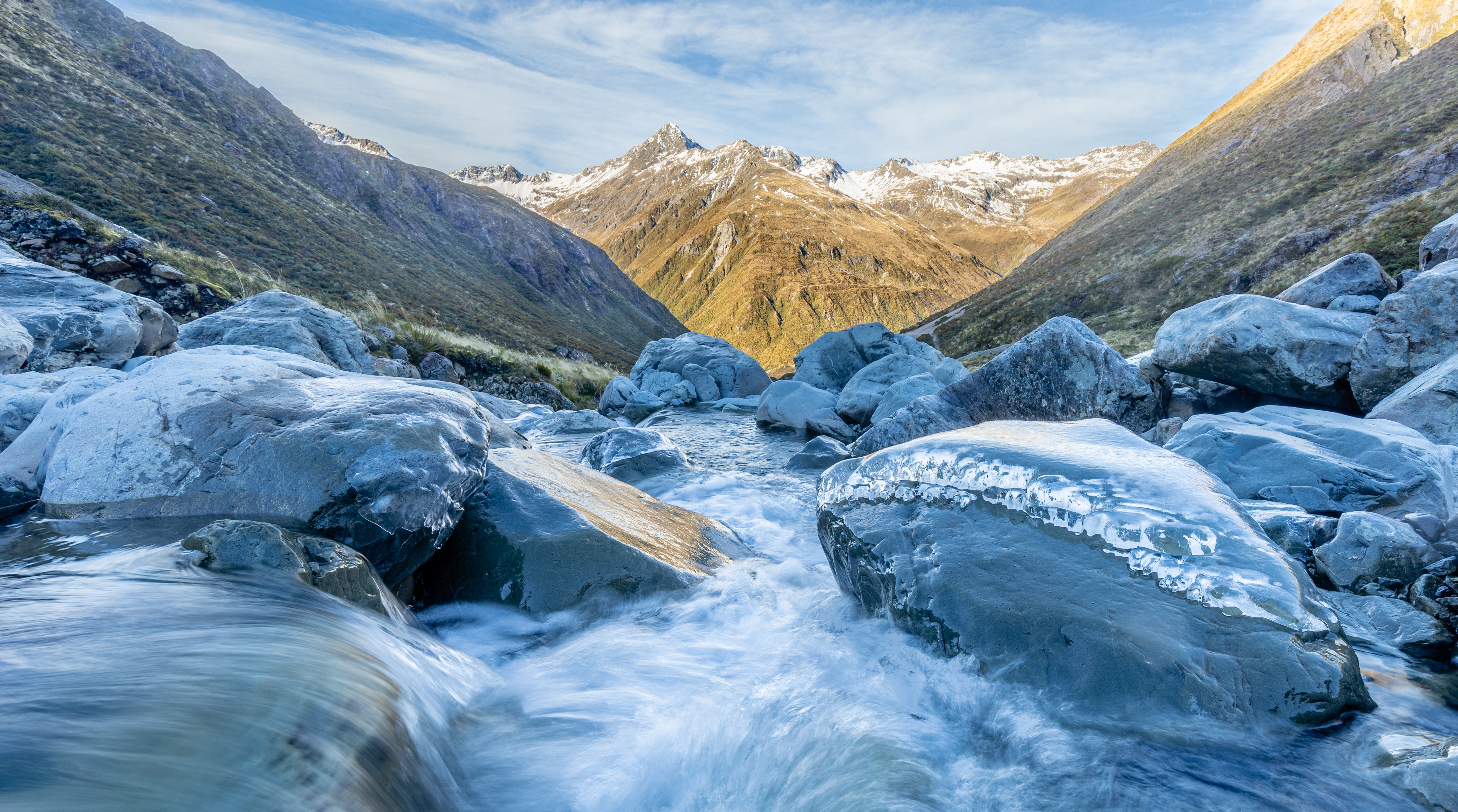 Otira River in Arthur's Pass National Park, New Zealand. The photo was taken not too far from Otira River foot-bridge